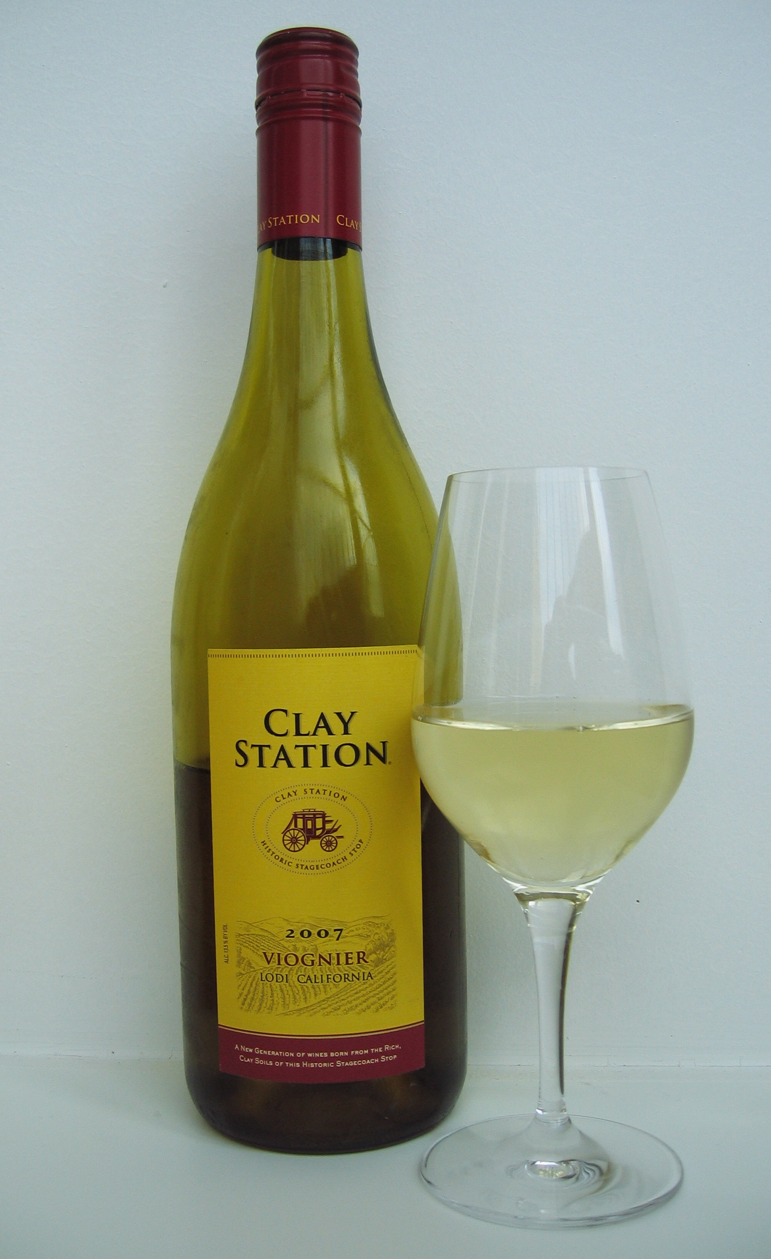 Clay Station Viognier 2007, a wine from Lodi, California.